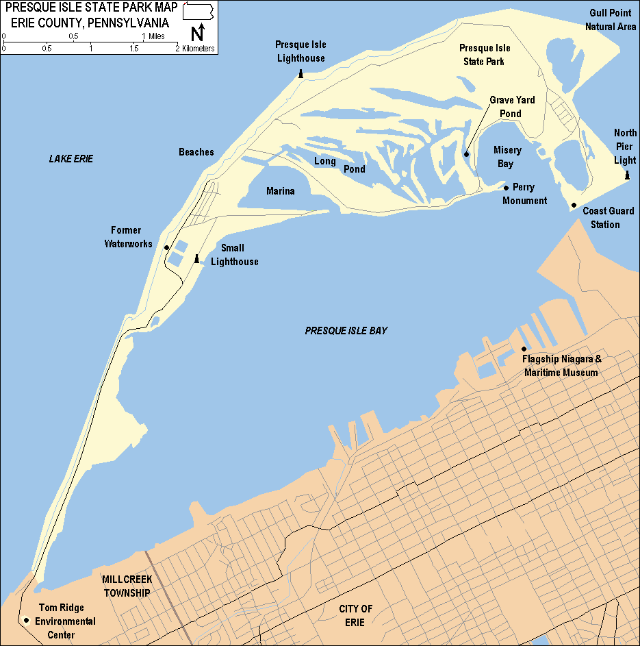 Map of Presque Isle State Park, Erie County, Pennsylvania, USA